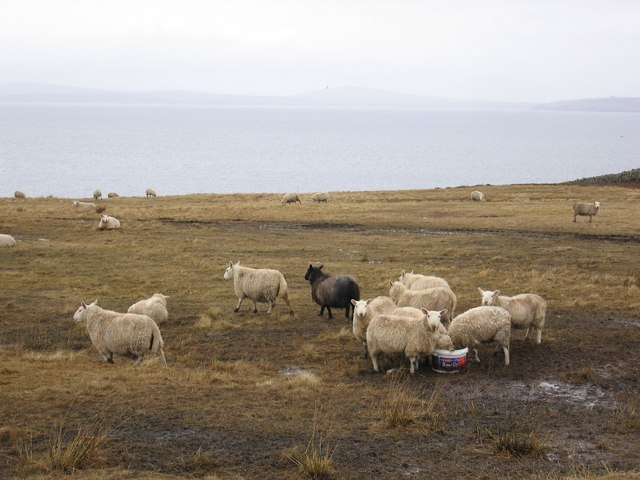 Sheeps on Burray, Orkney, Scotland